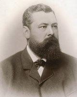 Friedrich Ottomeyer (1838 –1895), Founder of the Ottomeyer company, famous as maker of steam ploughs and other agricultural machinery